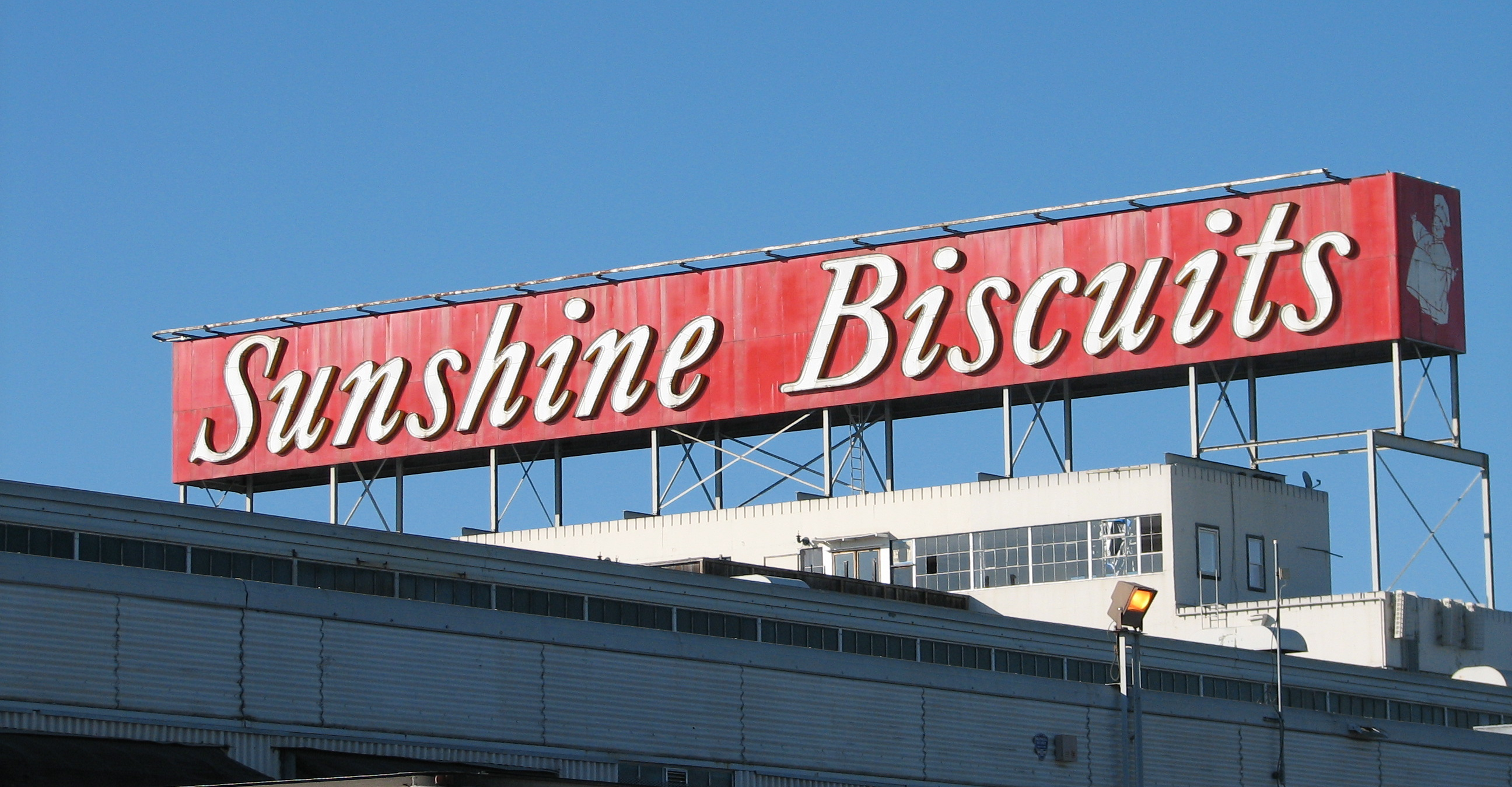 Sign at Sunshine Biscuits factory